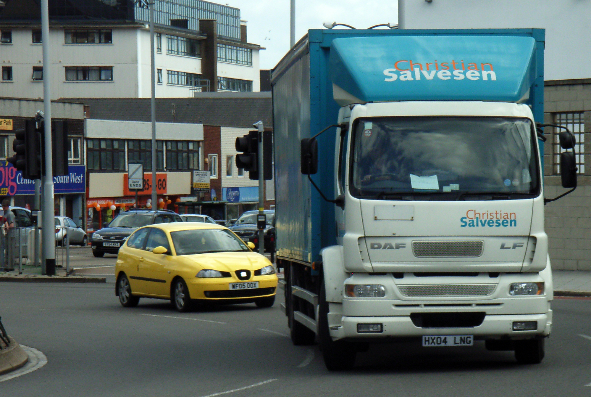 HX04LNG DAF TRUCKS FA LF55.220 CURTAIN SIDED 0cc (01/03/2004) DIESEL Christian Salvesen